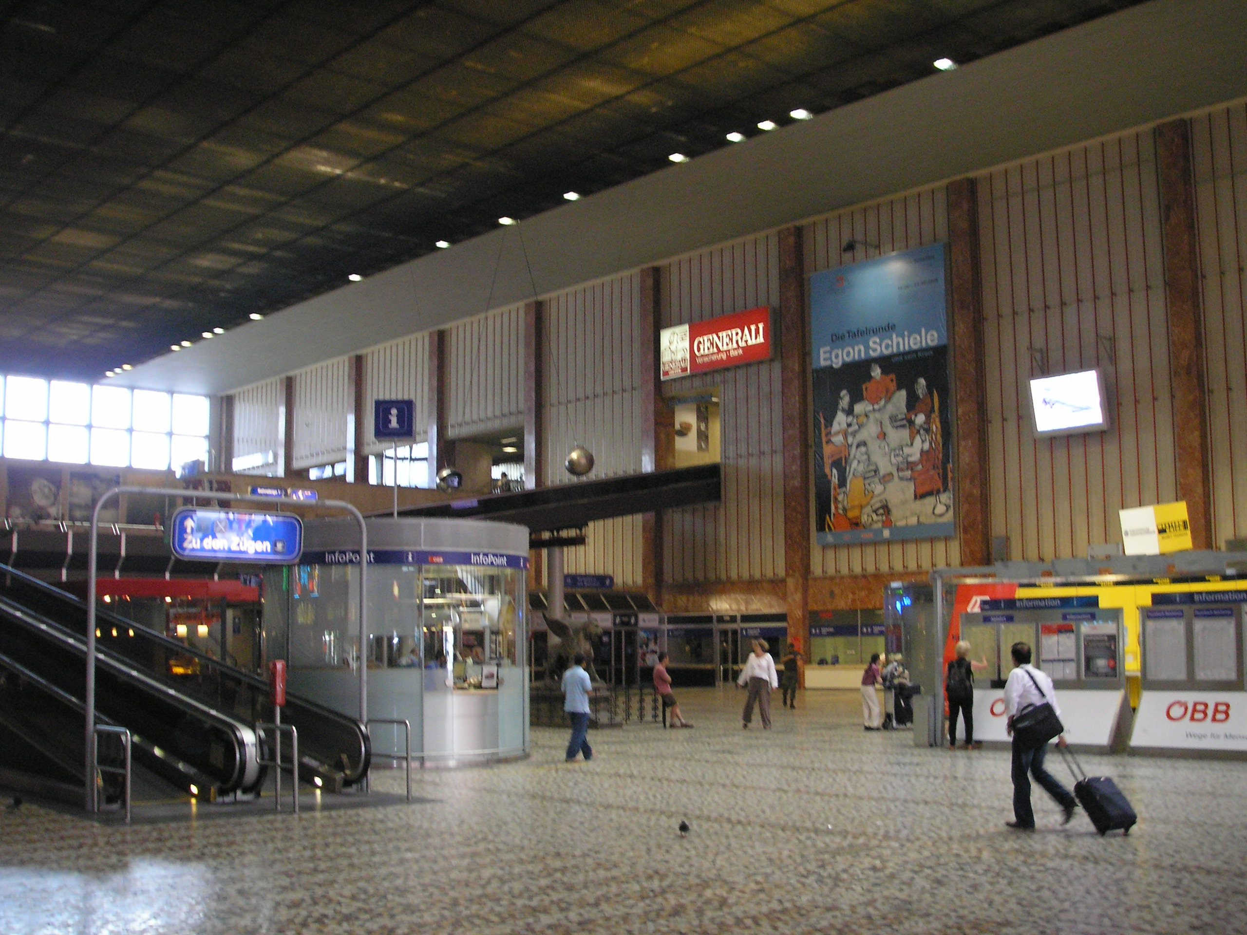 Arrival hall of the post-war Südbahnhof in Vienna.